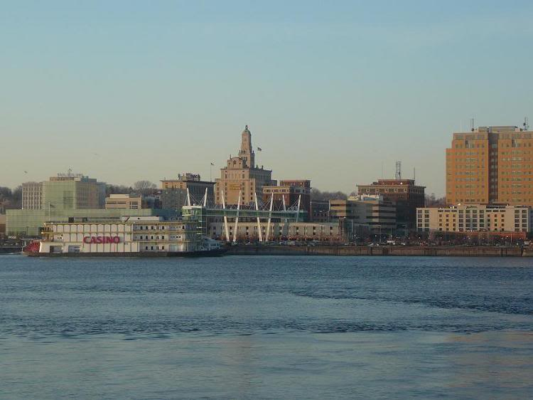 A picture of Downtown Davenport, Iowa from Moline, Illinois.